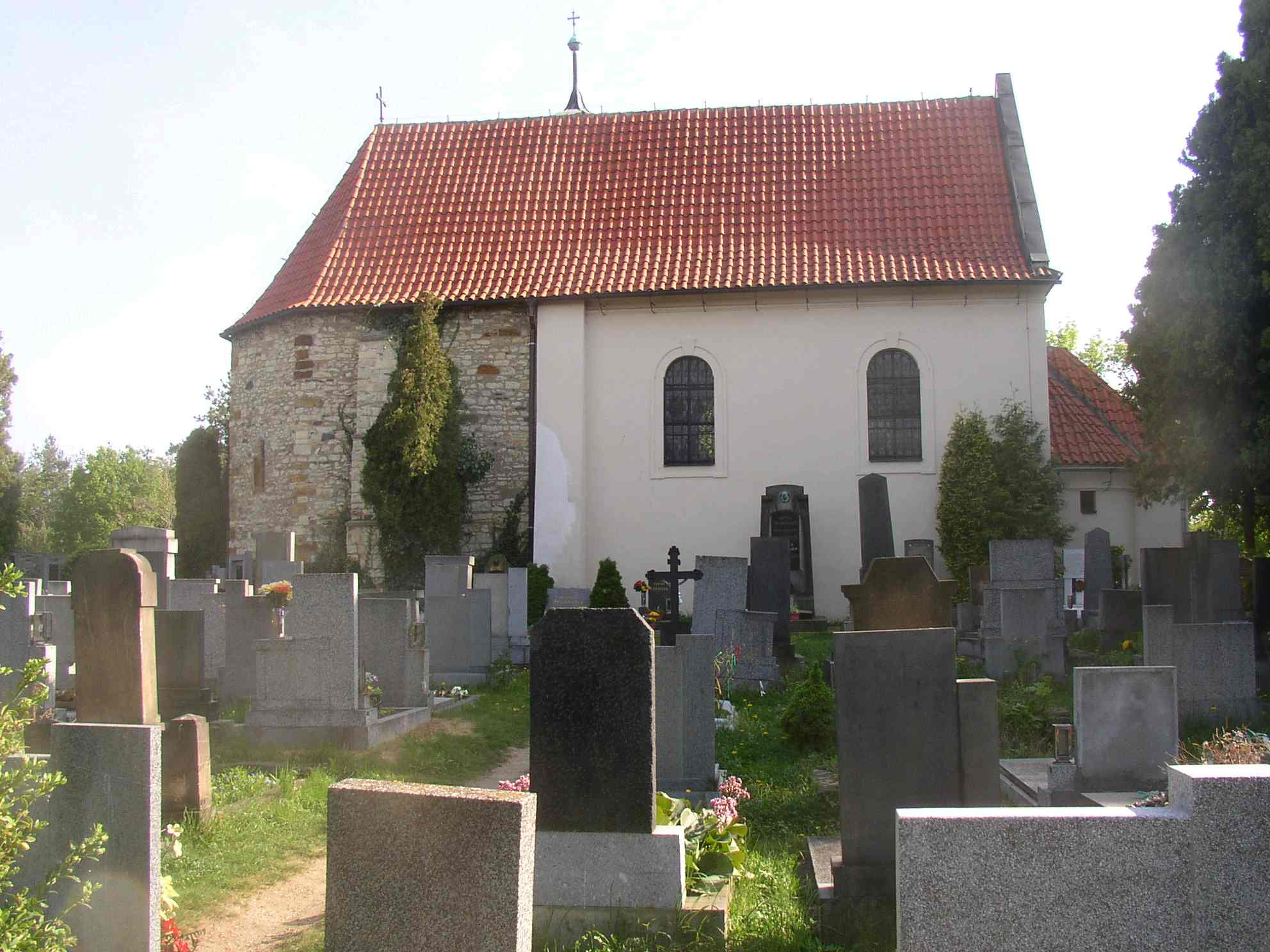 St. Clement church, view from N side, Levý Hradec, Roztoky, Prague-West District, Czech Republic Photo taken by Miaow Miaow in May 2005, PD-self